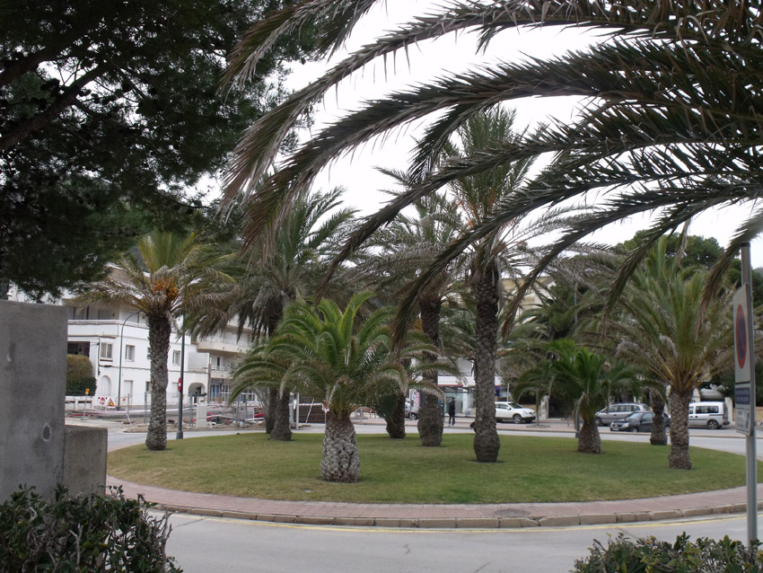 Estartit (Girona)